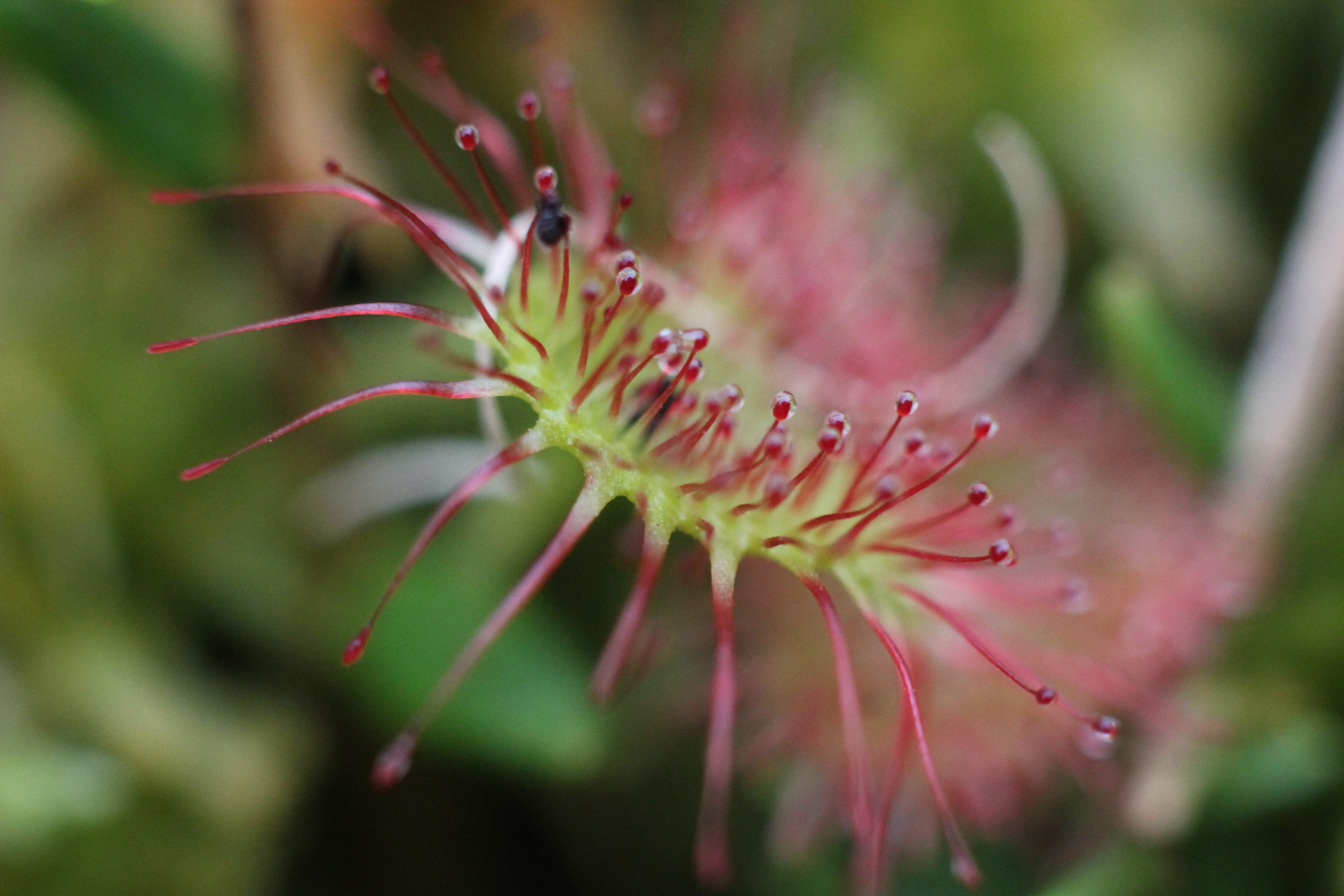 Blossom of Roundleaf sundew. Photo taken in the swamp of Bijotai forest.